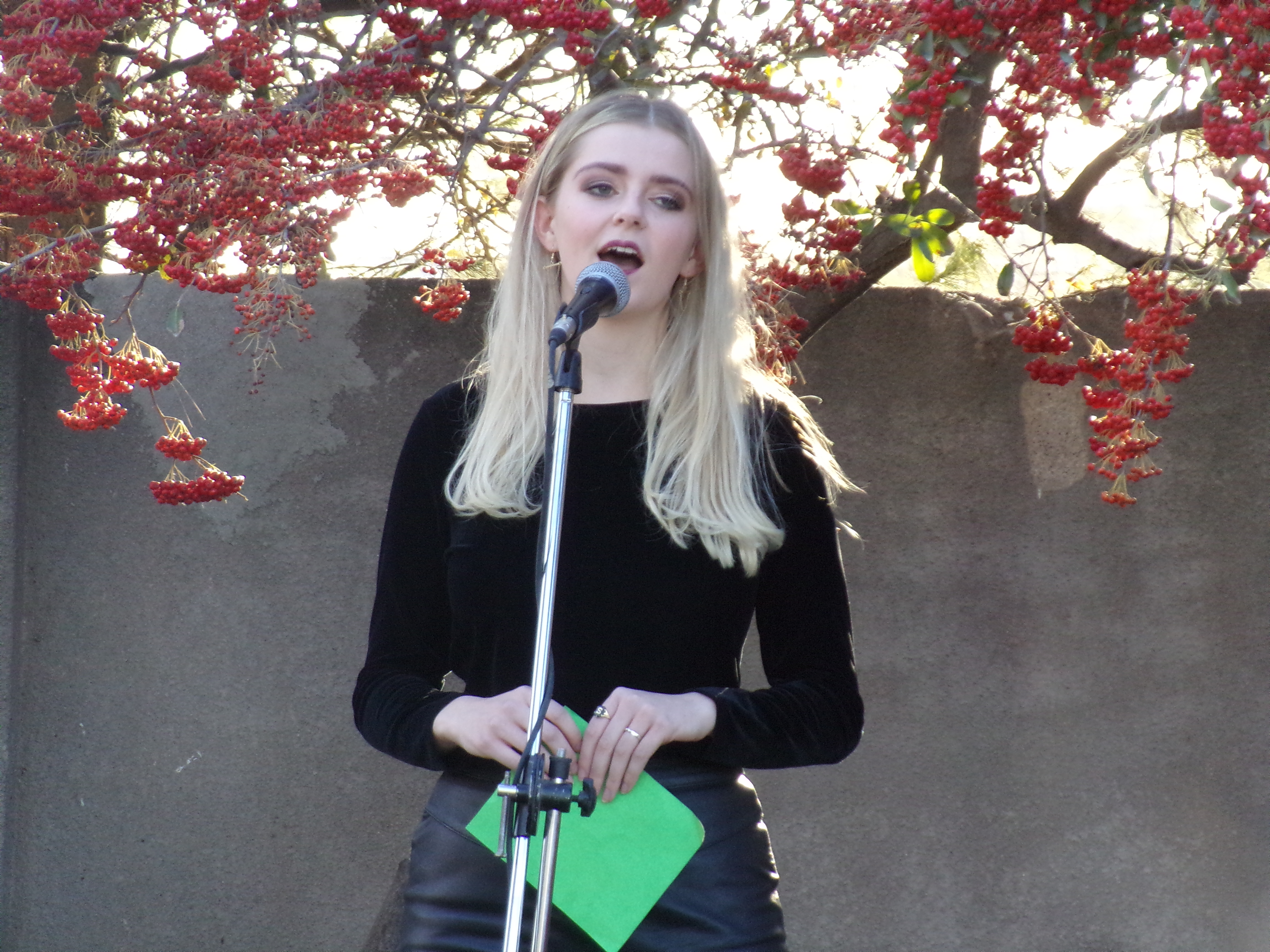 Casi Wyn, Welsh singer, singing the national anthem of Wales in the Moriah Chapel in Trelew, Argentina.